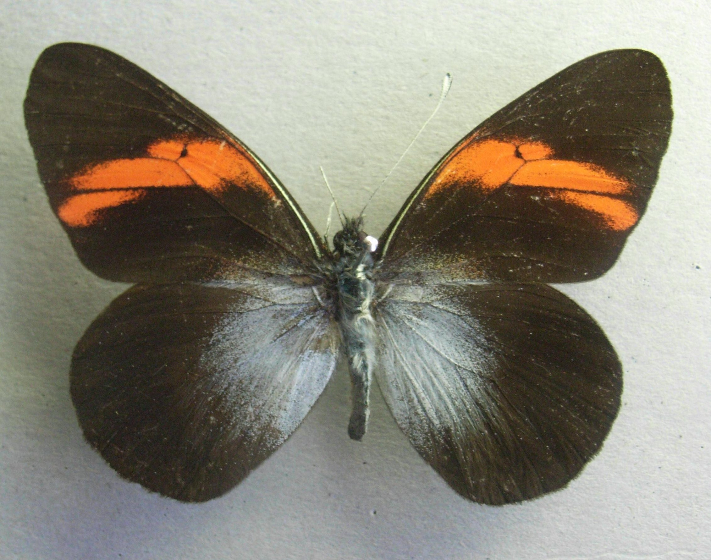 Pereute leucodrosyne:Pierinae:Pieridae.